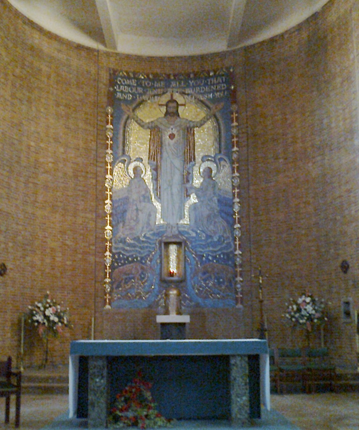 Sanctuary and apse at Sacred Heart Church, Sheffield. Showing Eric Newton Mosaic